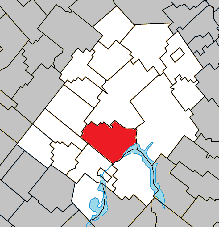 Location of Saint-Joseph-de-Coleraine, Quebec within Les Appalaches Regional County Municipality.